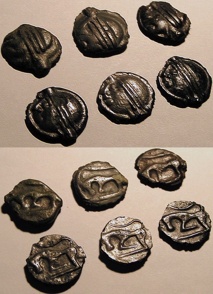 Segusiavii potins